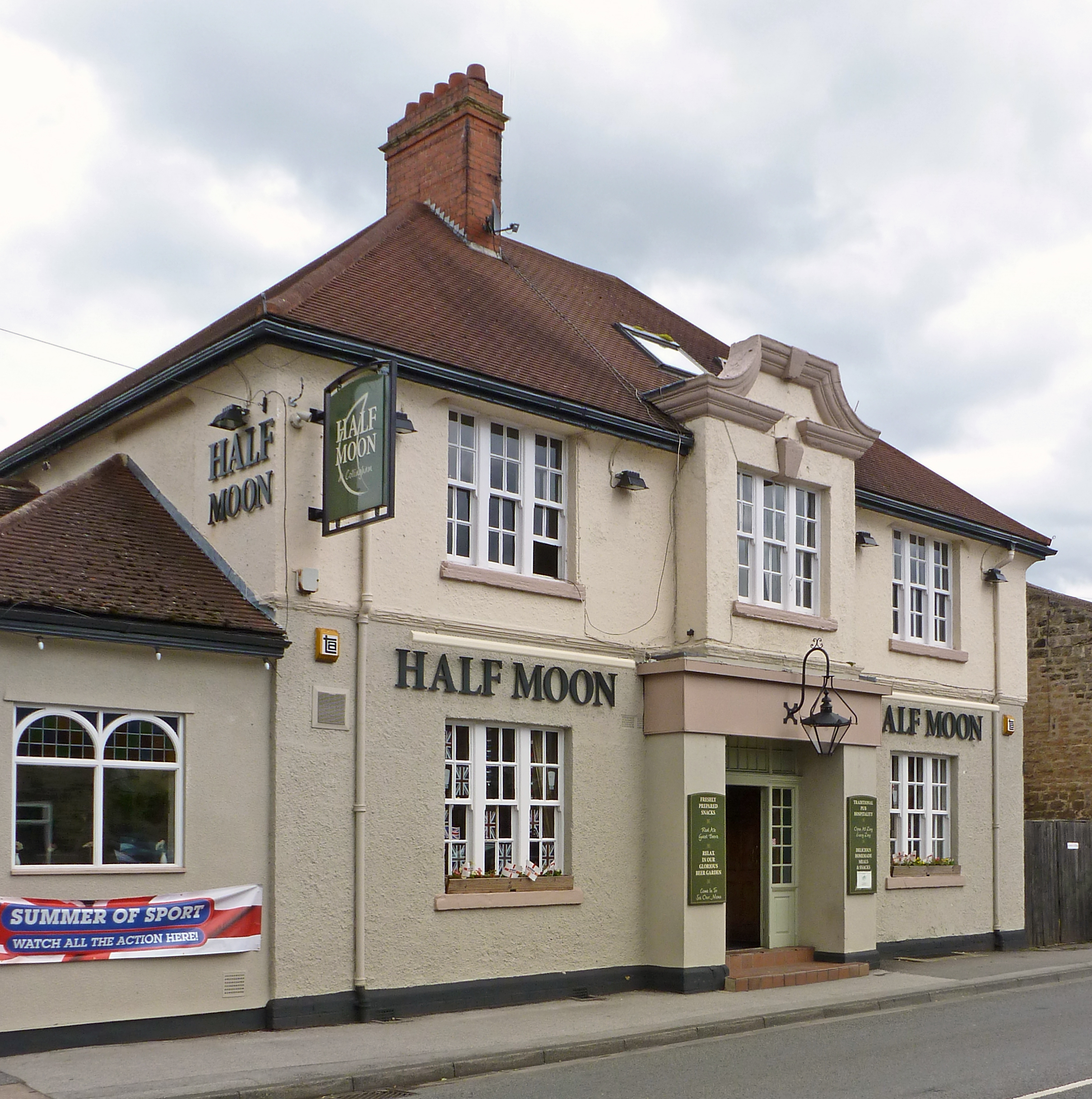 Half Moon, Harewood Road, Collingham, West Yorkshire. Taken by Flickr user: Tim Green aka atouch on Sunday the 17th of June 2012.